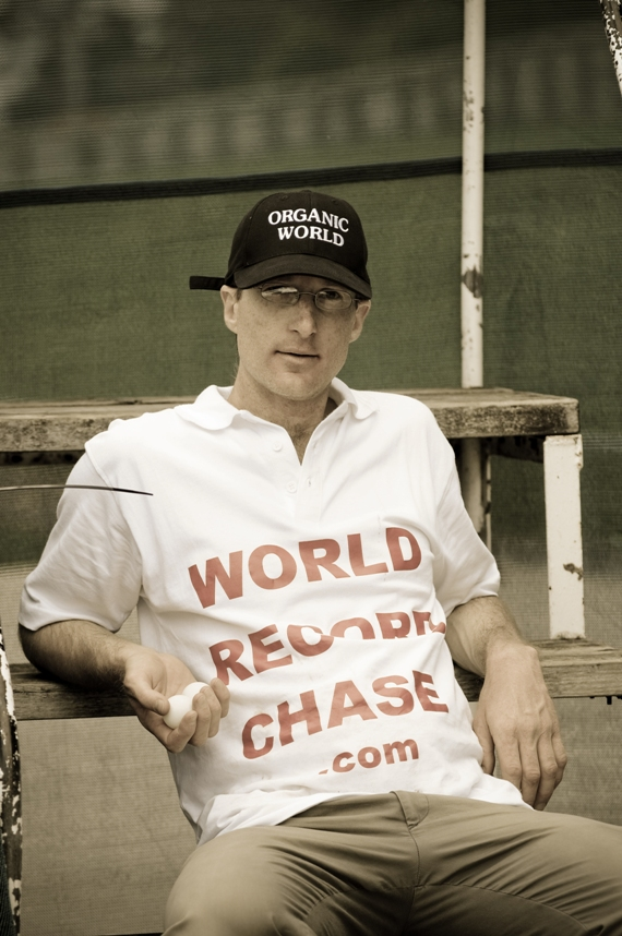 Picture of Alastair Galpin by Liz March